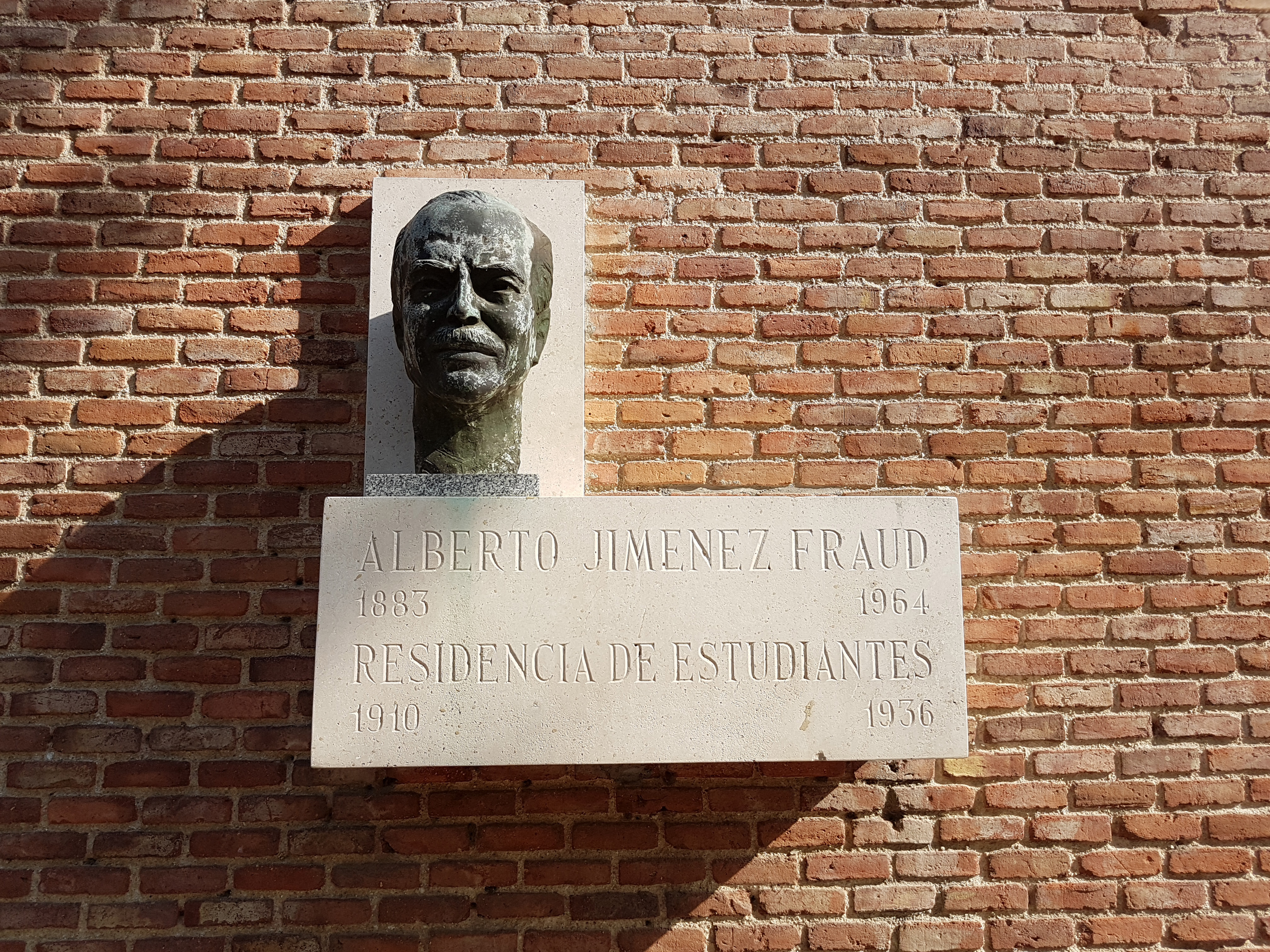 Bronze bust and honorary inscription in memory of Alberto Jiménez Fraud (1883-1964), first director of the Residencia de Estudiantes (Student Residence), Madrid (Spain)